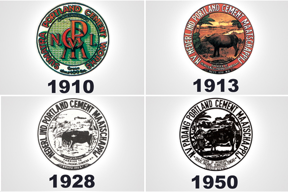 The logo of PT Semen Padang (Persero) was still under the administration of the Dutch East Indies Colonial Administration and was named NV Nederlandsch Indische Portland Cement Maatschappij (NV NIPCM).